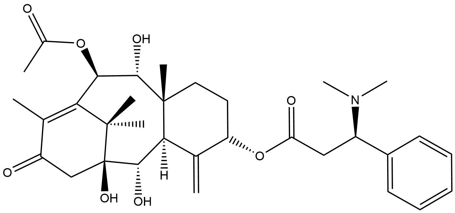 Molecular structure of Taxine B drawn on ChemDraw